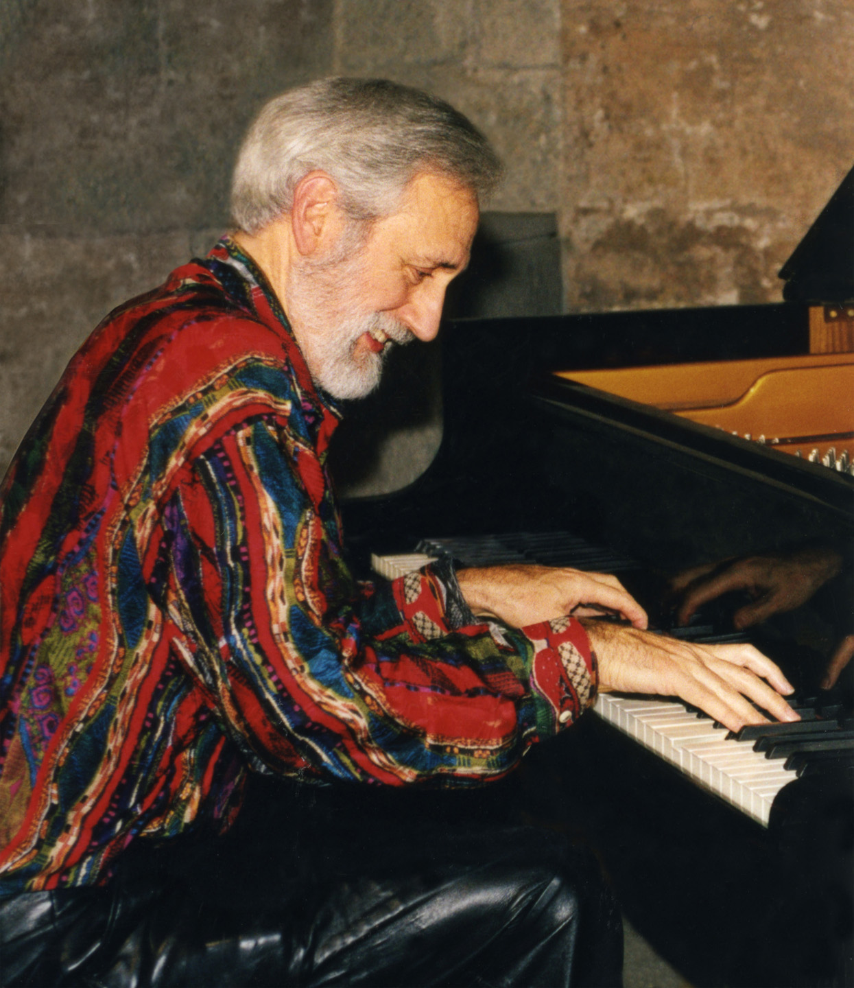 Denny Zeitlin — in a jazz piano performance at the Umbria Millennium Jazz Festival, Orvieto, Italy, January 5, 2000.